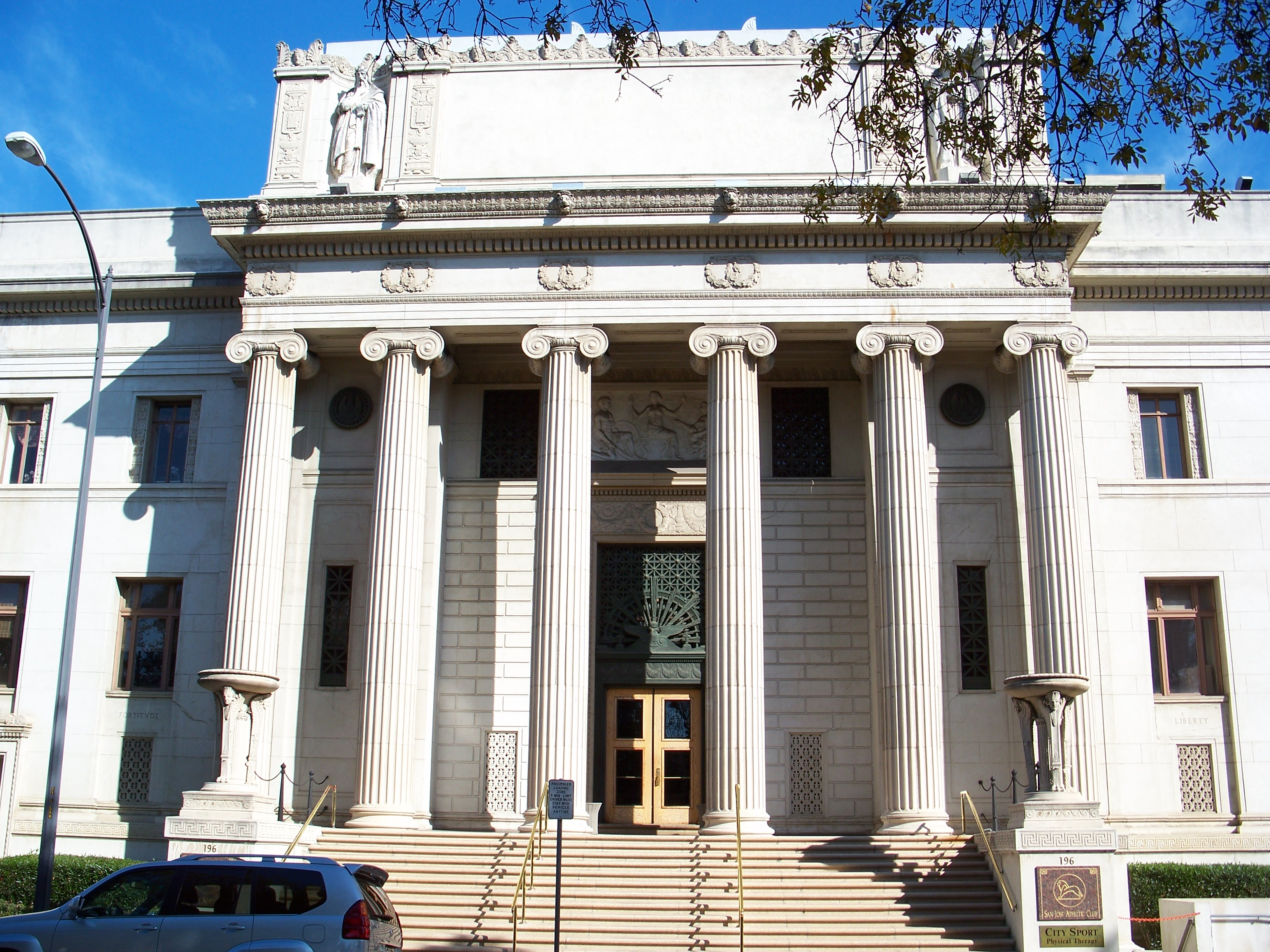 Scottish Rite Temple. 196 North Third Street. San Jose, California, USA